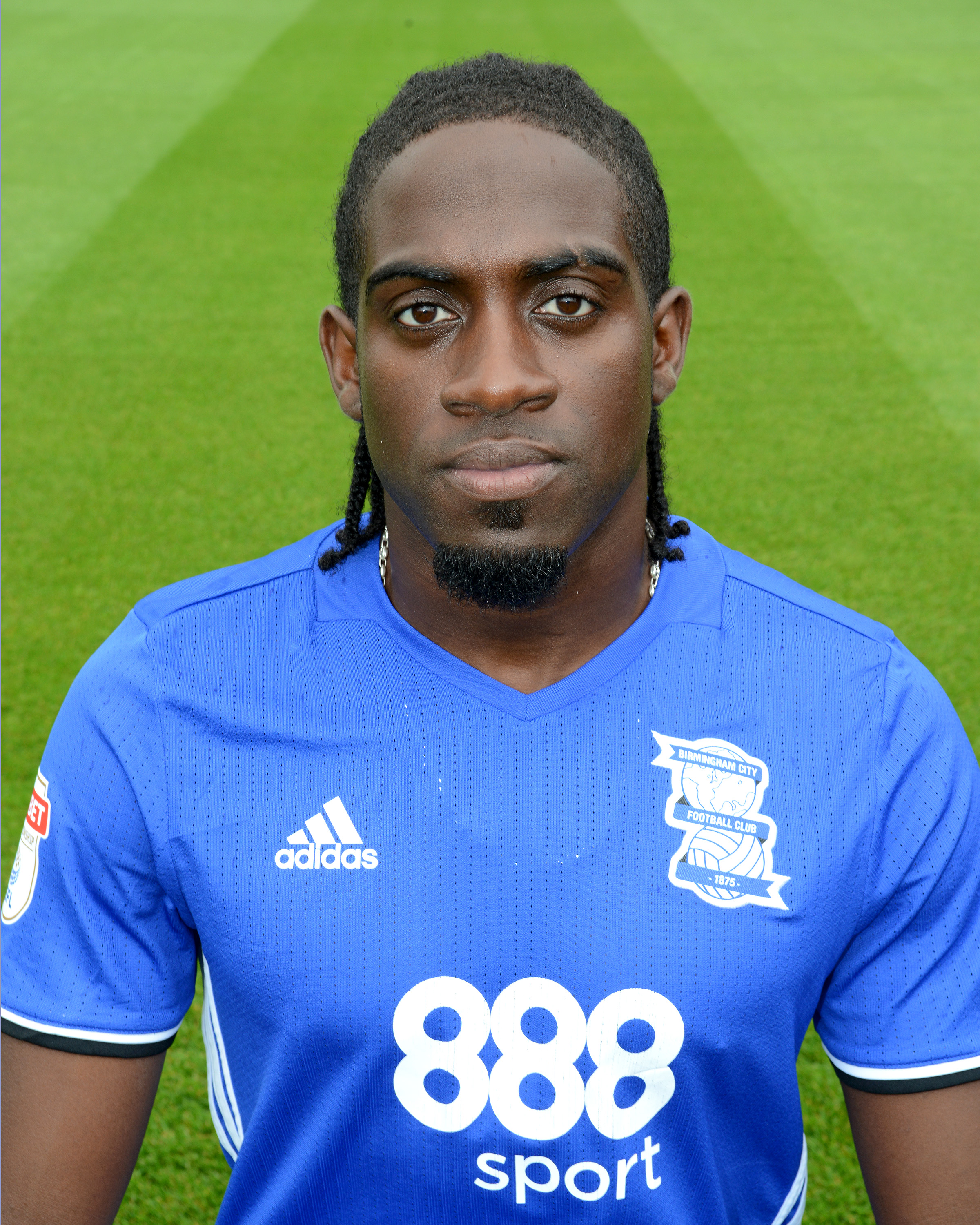 Clayton Donaldson in Birmingham City F.C. kit, 2016